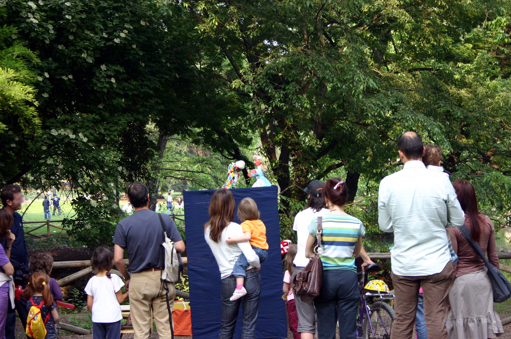 Puppeteer at the "Giardini pubblici di Porta Venezia" city park, in Milan, Italy. Picture by Giovanni Dall'Orto, April 22 2007.